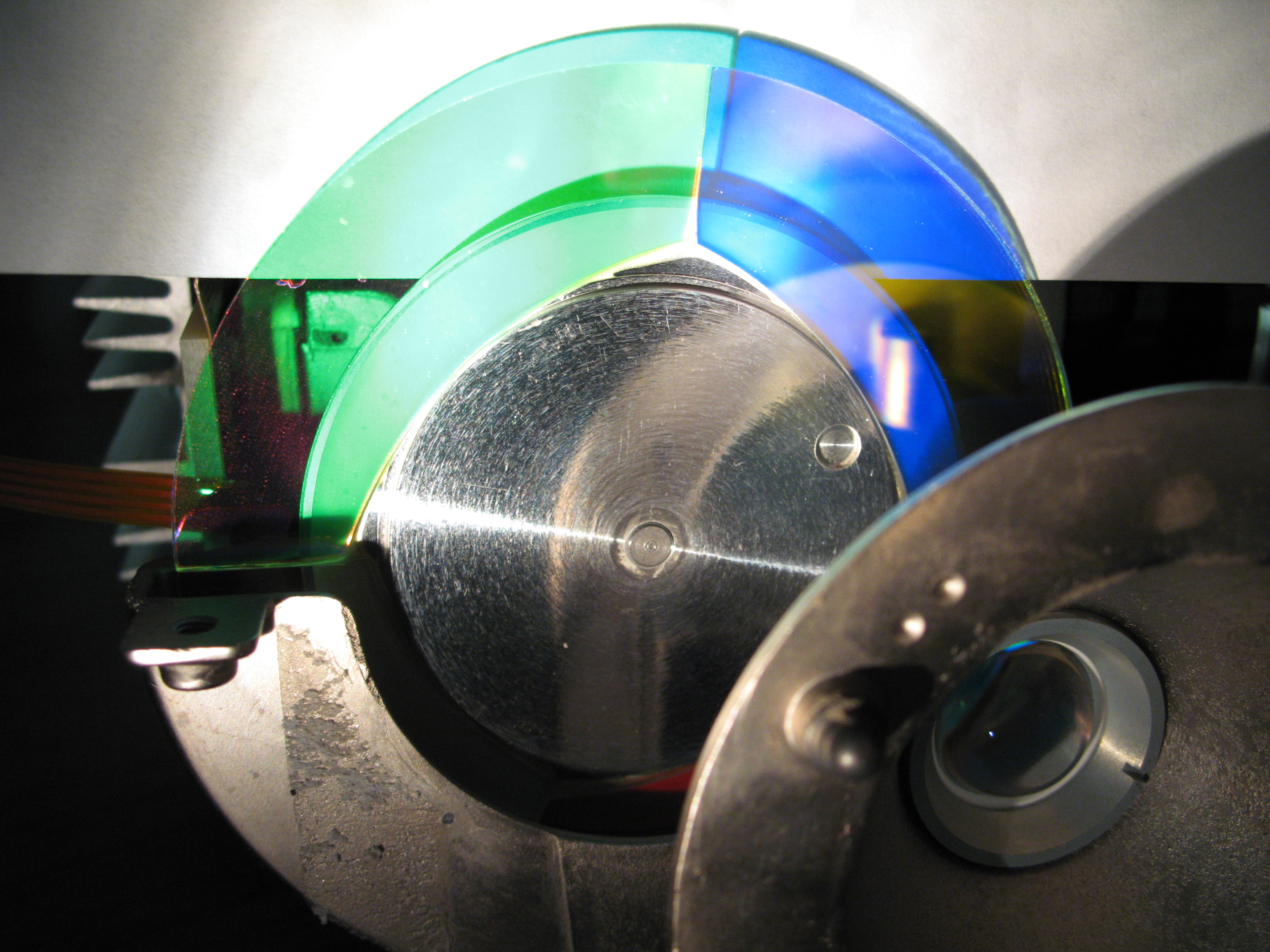 Internal components of an old 1998 InFocus LP425z single-chip DLP projector, with a 4-segment color wheel. This older 4-segment RGB+gray wheel design has a tendency to produce really poor yellows that are dark and greenish. Newer color wheels contain more segments with other colors to help improve the color gamut. The glass segment shape is rather odd.. the exterior edge is circular, but the interior edge doesn't match the hub curvature at all. As the non-expert uploading this image I cannot explain the reason for that design. (COMMENT: The reason for this may be because of the way the glass may have been cut from a larger sheet. Two tight curves would make it quite likely to split.) To the right is the cone-shaped light input from the lamp with a domed fisheye lens in the center. This lens works like a doorway spyhole except in reverse. Light enters as a narrowing cone, and the fisheye straightens the light into a tight beam about 5mm in diameter traveling in a parallel beam, under the main lens towards a front-surfaced mirror. The fat pins around the edge of the cone are used to correctly align the lamp assembly that is inserted by the projector user.